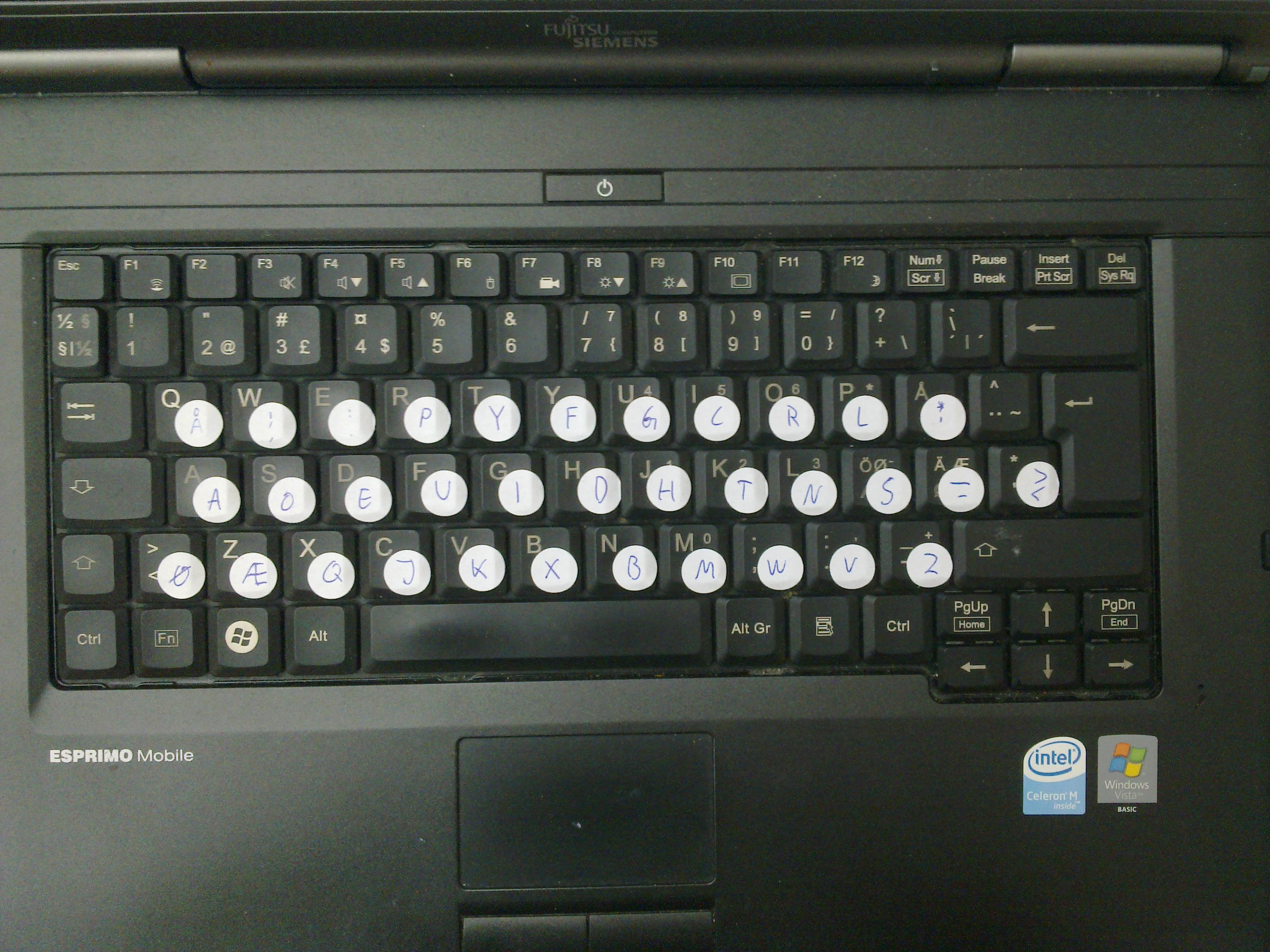 Hand-made Dvorak labels pasted over the keys of a non-Dvorak computer keyboard